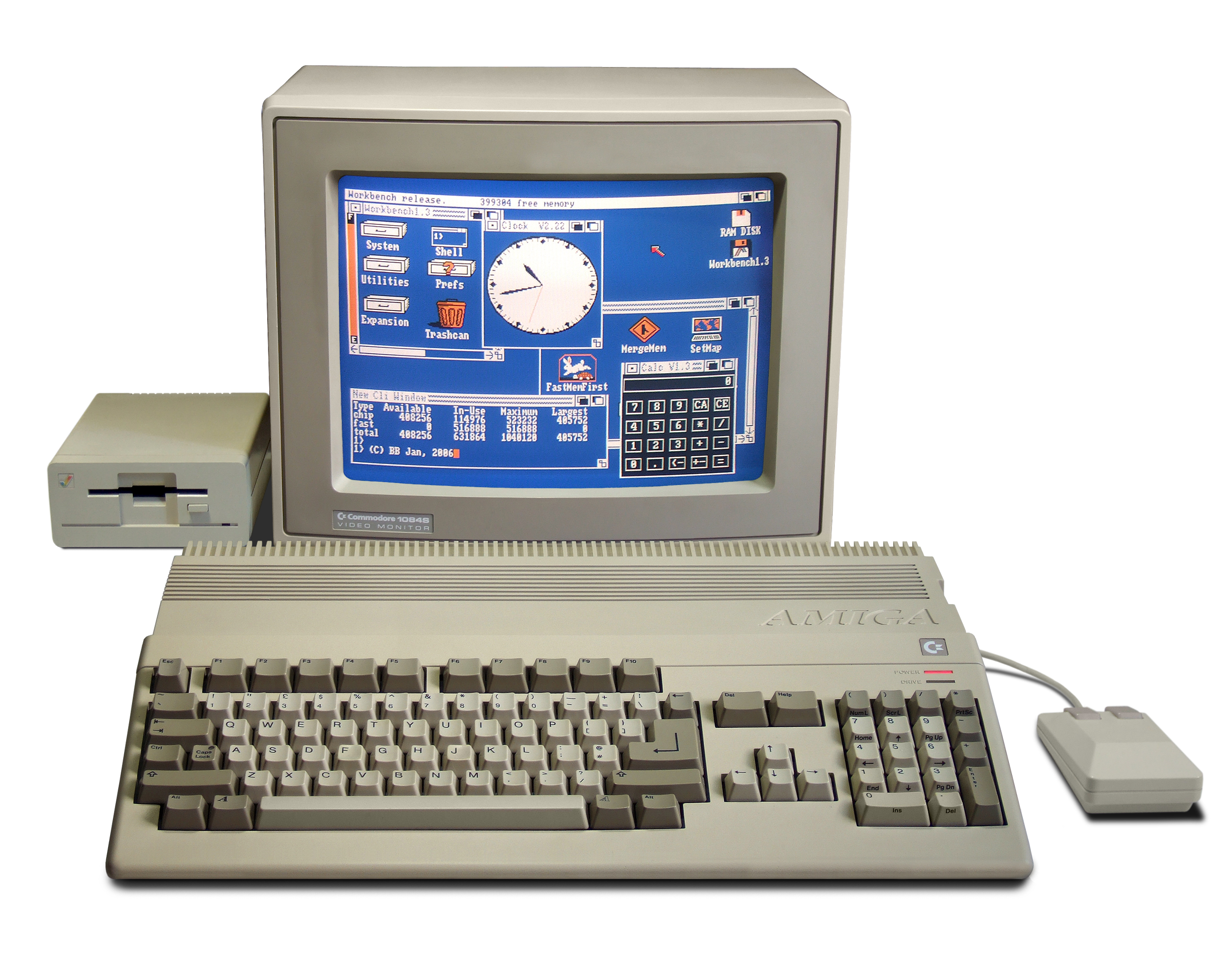 Commodore Amiga 500, 16-bit computer (1987)Post Processing: BG, B/C, spot, composite picture.The Amiga 500 personal computer system, pictured with a monitor, a mouse, a keyboard, and a floppy disk drive.